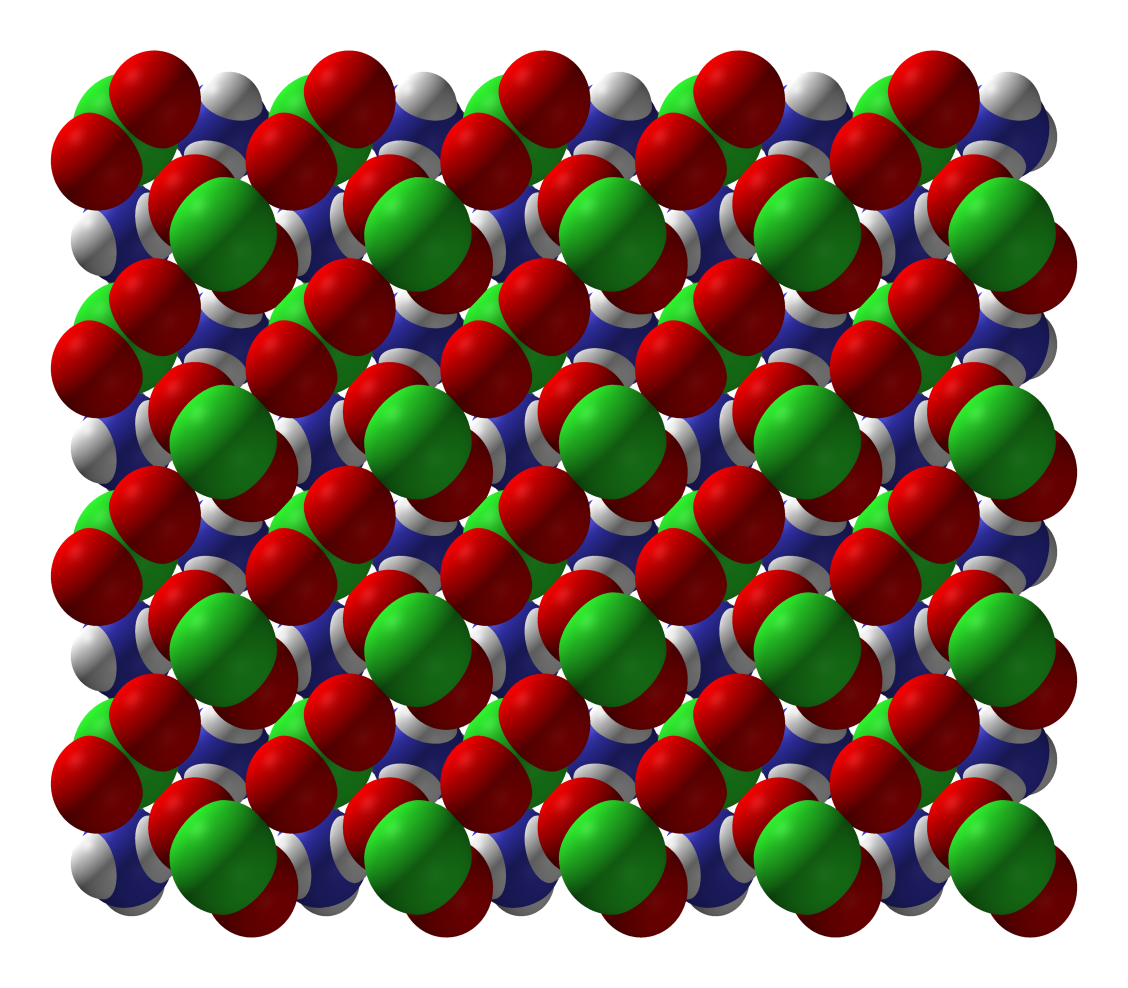 Space-filling model of part of the crystal structure of ammonium chlorite, NH4ClO2. Structural data from Acta Cryst. 2005, E61, i38-i40.